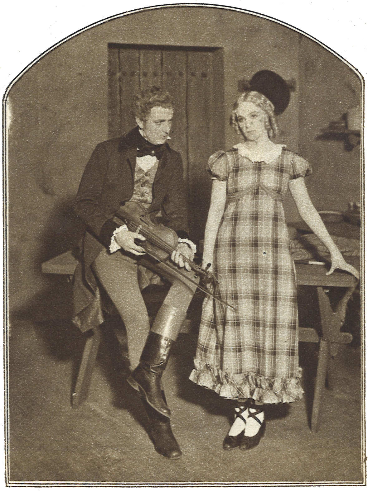 Swedish actors Hugo Björne och Inga Tidblad in a stage adaption of Little Dorrit by Franz von Schönthan (after the novel by Charles Dickens) at the Swedish Theatre (Stockholm)